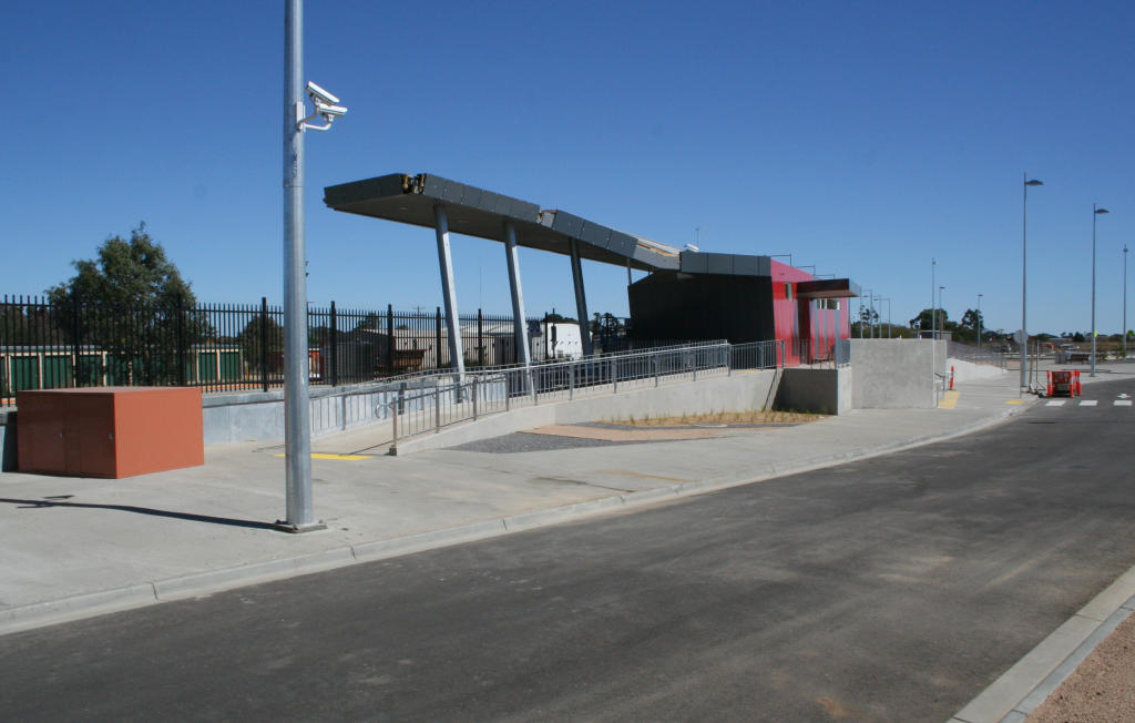 Street side of Wendouree railway station, Victoria while still under construction